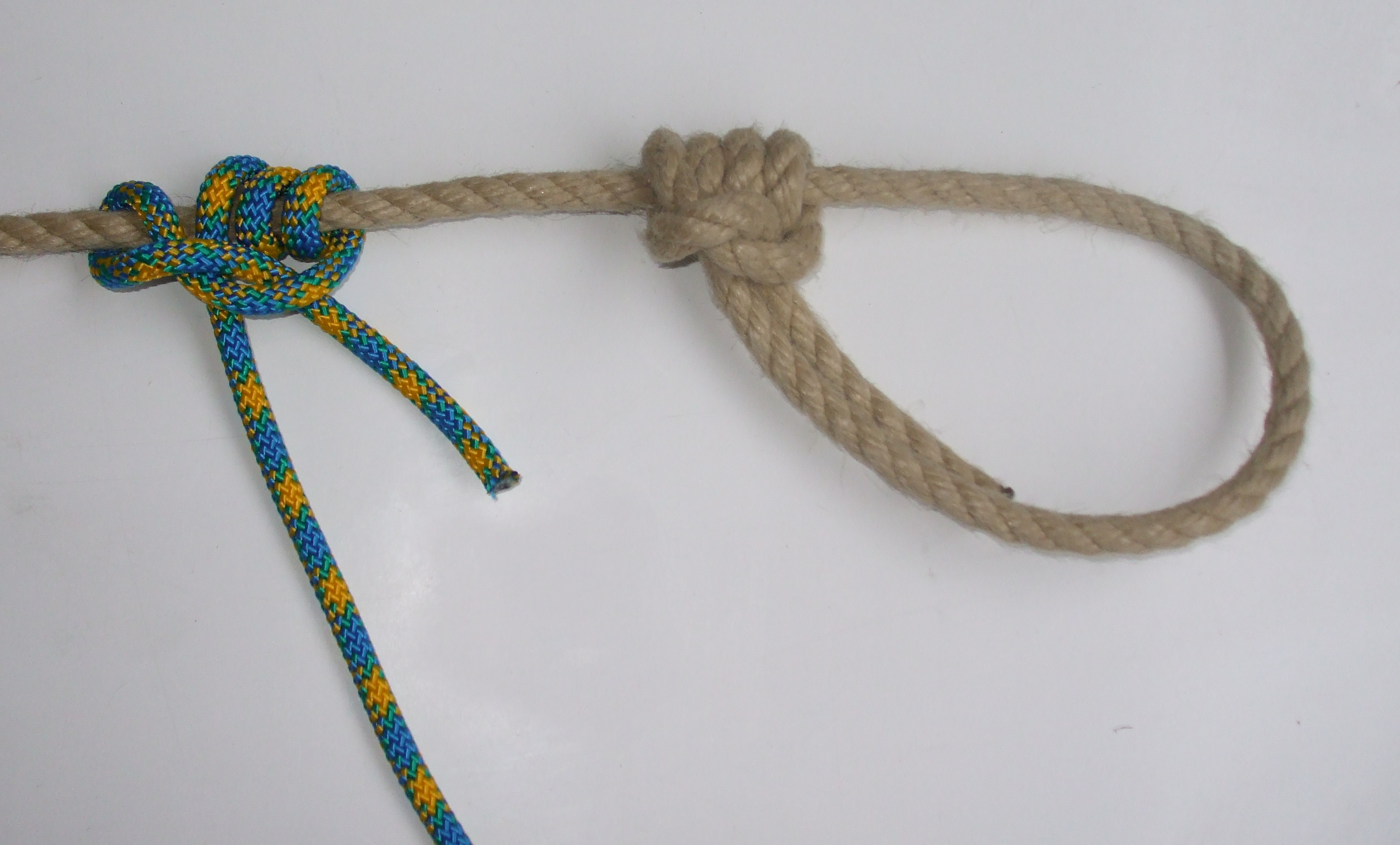 Tarbuck-knot: shown here and here